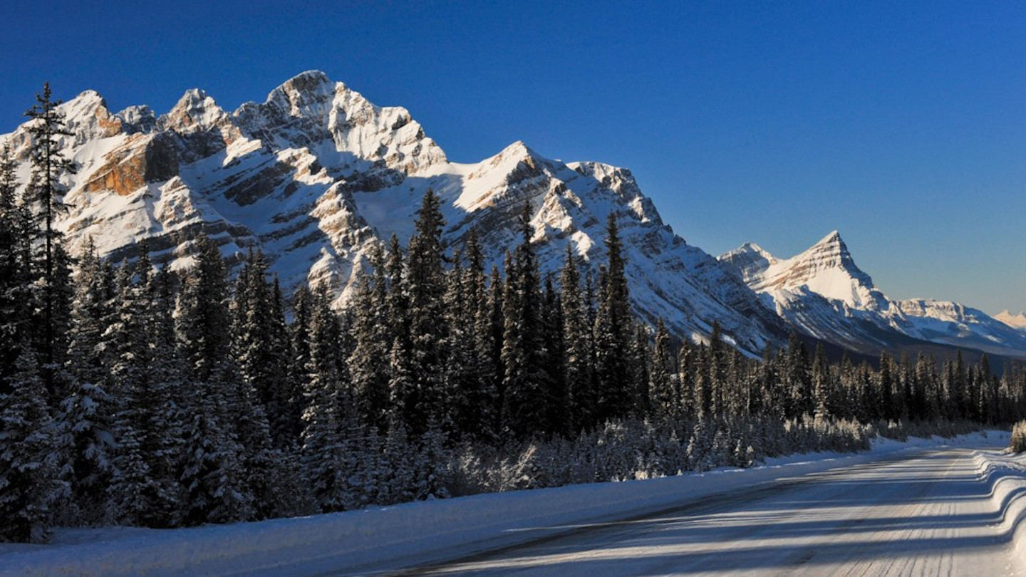 W:Mount Patterson (left) from the W:Icefields Parkway with White Pyramid and Black Pyramid further down the parkway (right of centre). Further still is a shoulder of Mt. Sarbach (and I'm unclear on the far away peaks on the extreme right).